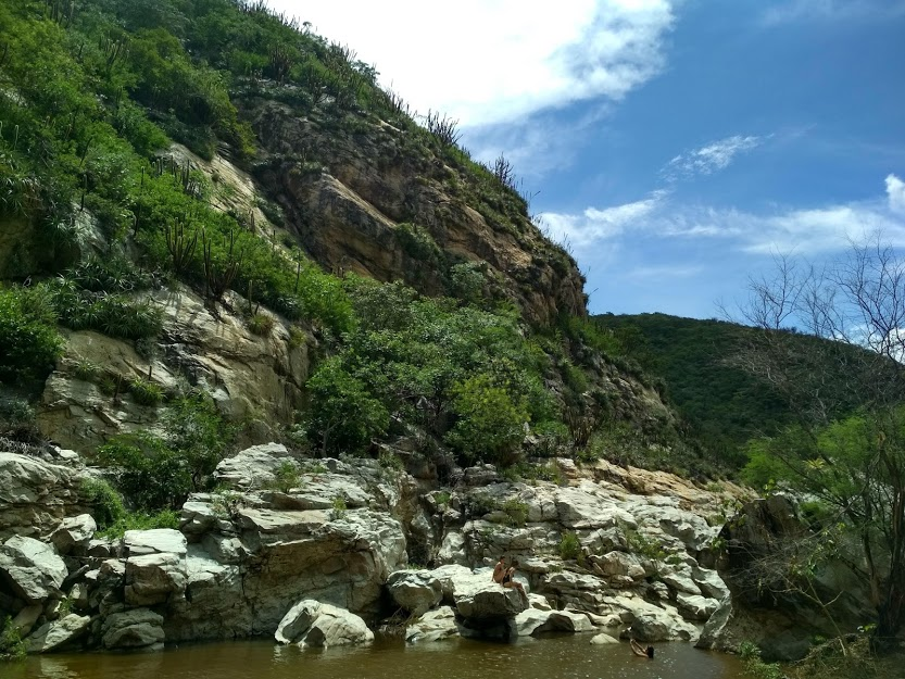 Cânion dos Apertados in Currais Novos, Rio Grande do Norte, Brazil